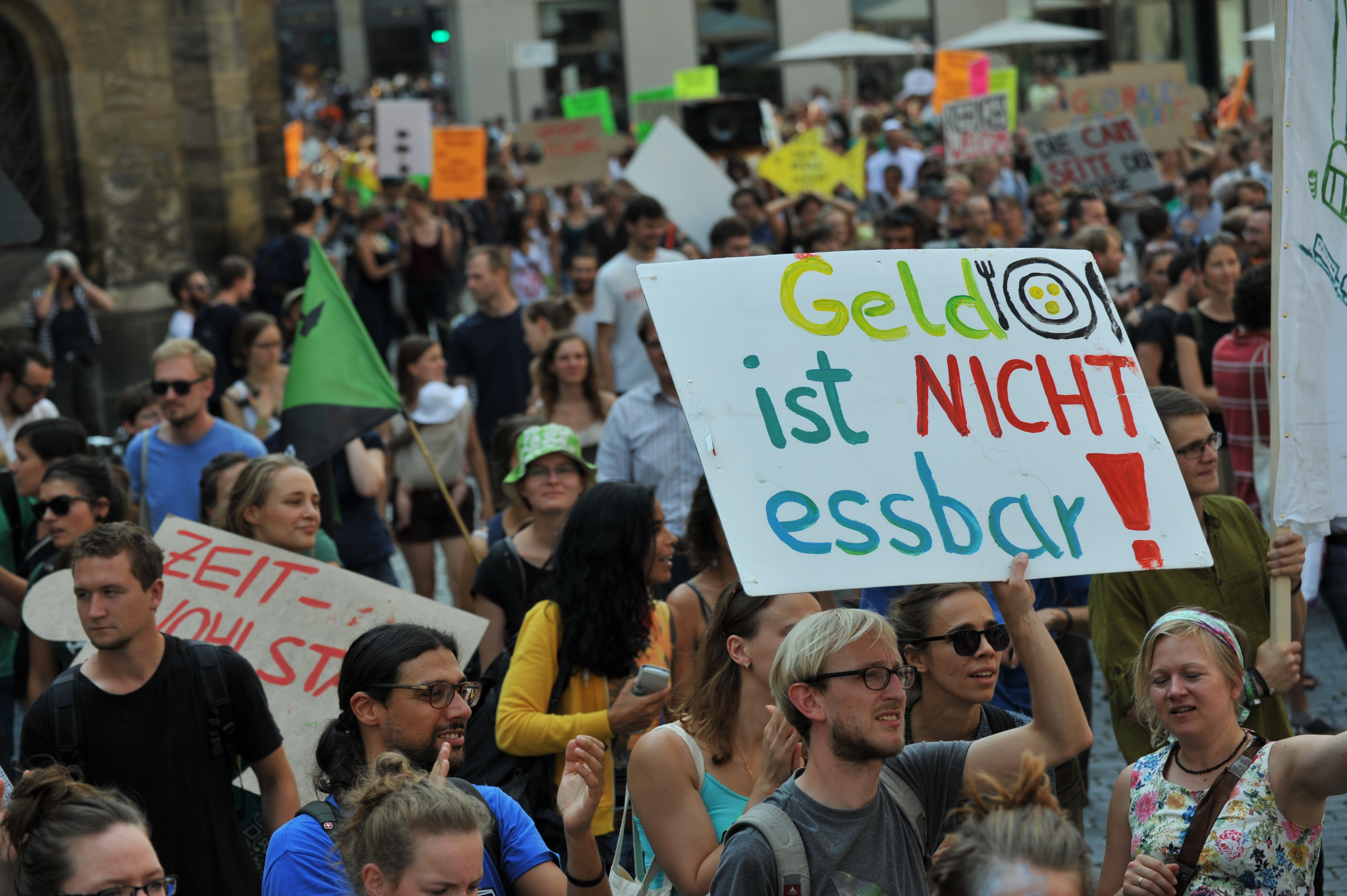 demonstration at the end of the 4th International Conference on Degrowth, Leipzig, 2014.